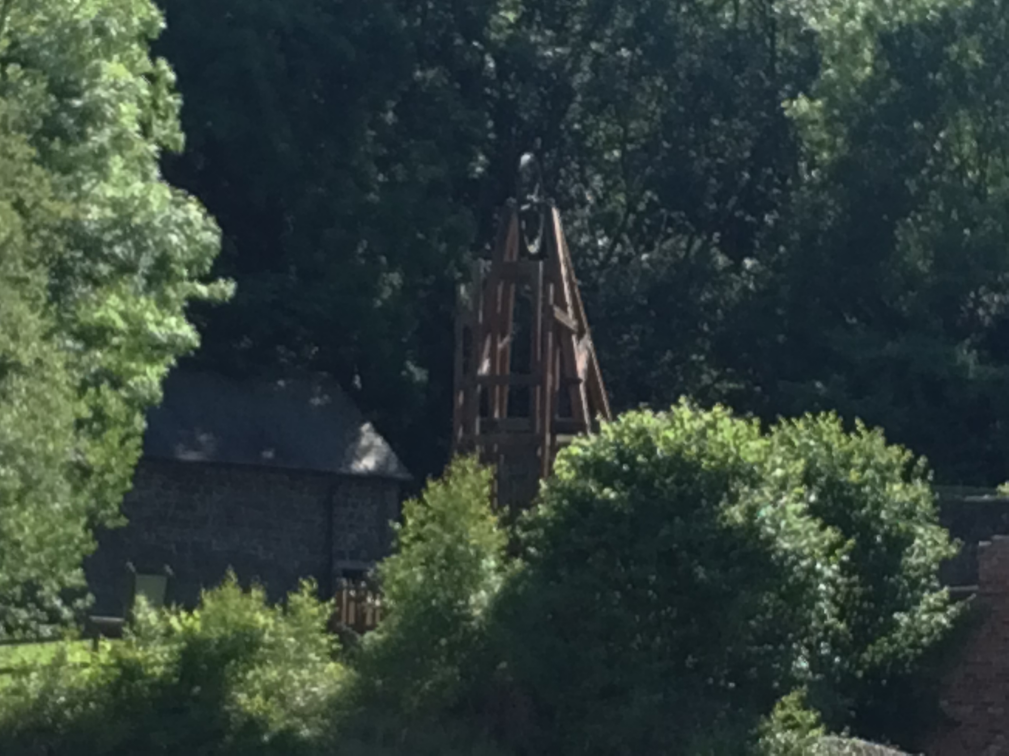 Snail Beach Mine Pulley